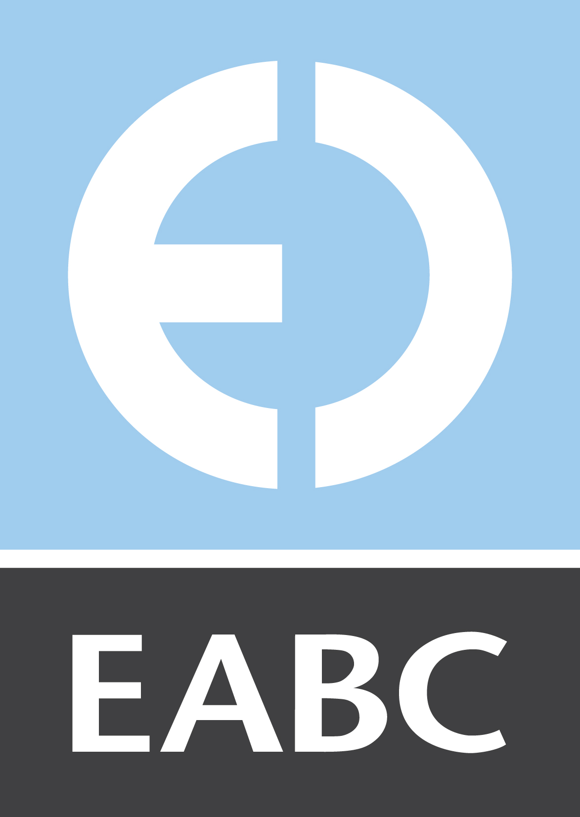 EABC logo